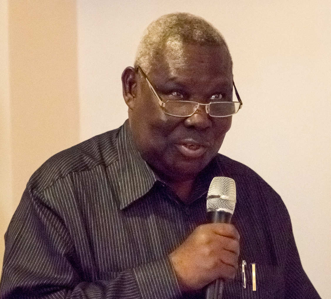 Seif Ali Iddi at the 2015 Zanzibar International Film Festival.